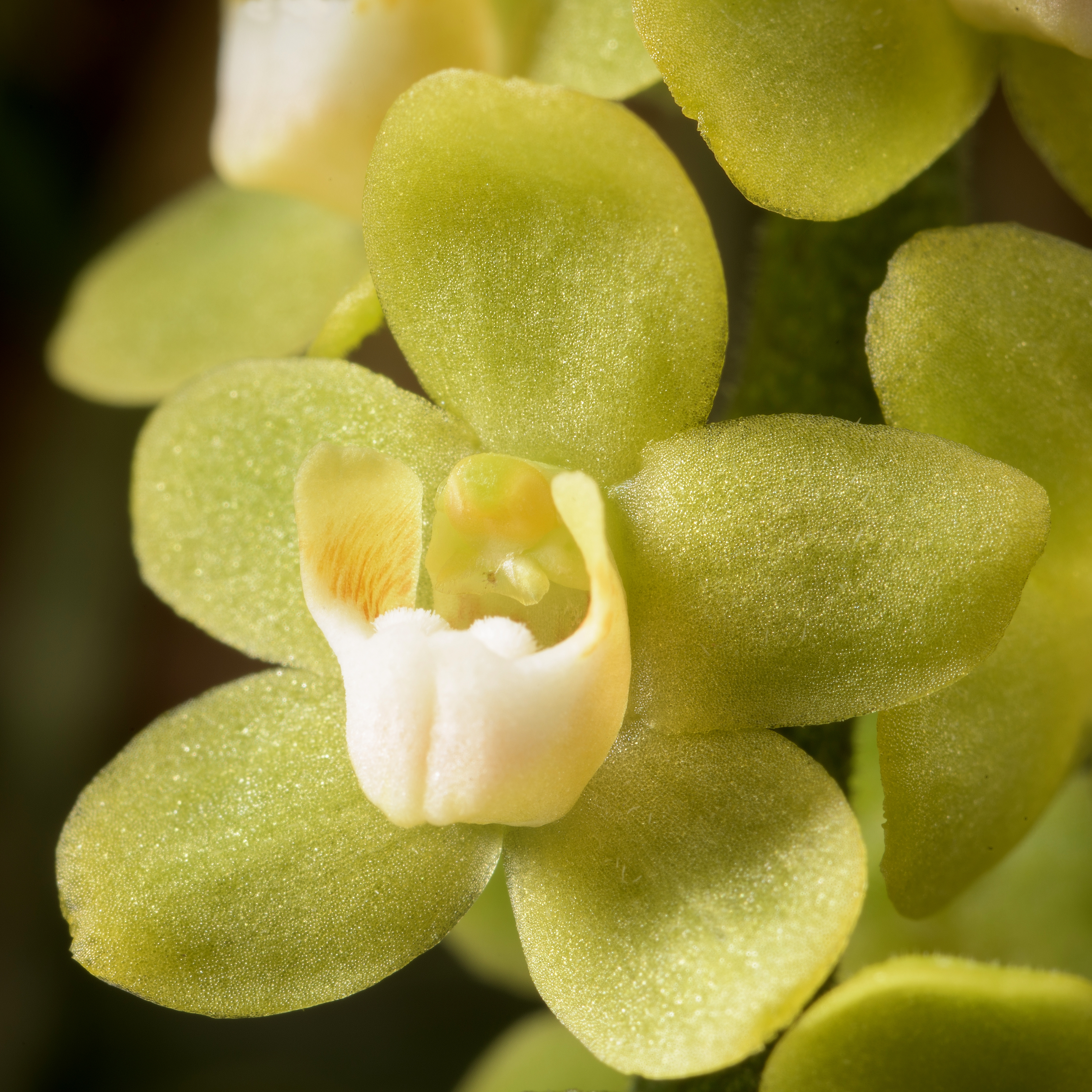 Distribution: E. Nepal to Indo-China 40 ASS EHM IND NEP 41 AND MYA THA VIE Found in [Asia-Tropical] Indian Subcontinent Assam, East Himalaya, India, Nepal, Indo-China Andaman Is., Myanmar, Thailand, Vietnam